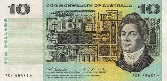 Australian 10 dollar note 1968, designed 1966, Size: 155mm x 76mm Front (depicted): Francis Greenway, Back: Henry Lawson, Signed: Coombs & Randall.